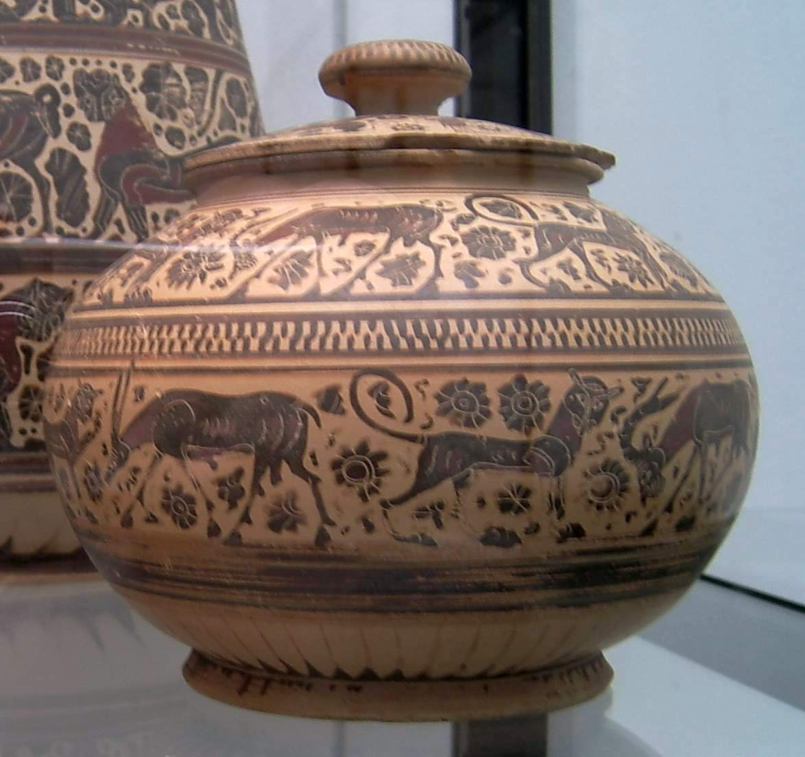 Corinthian pyxis, ca. 590 BC.